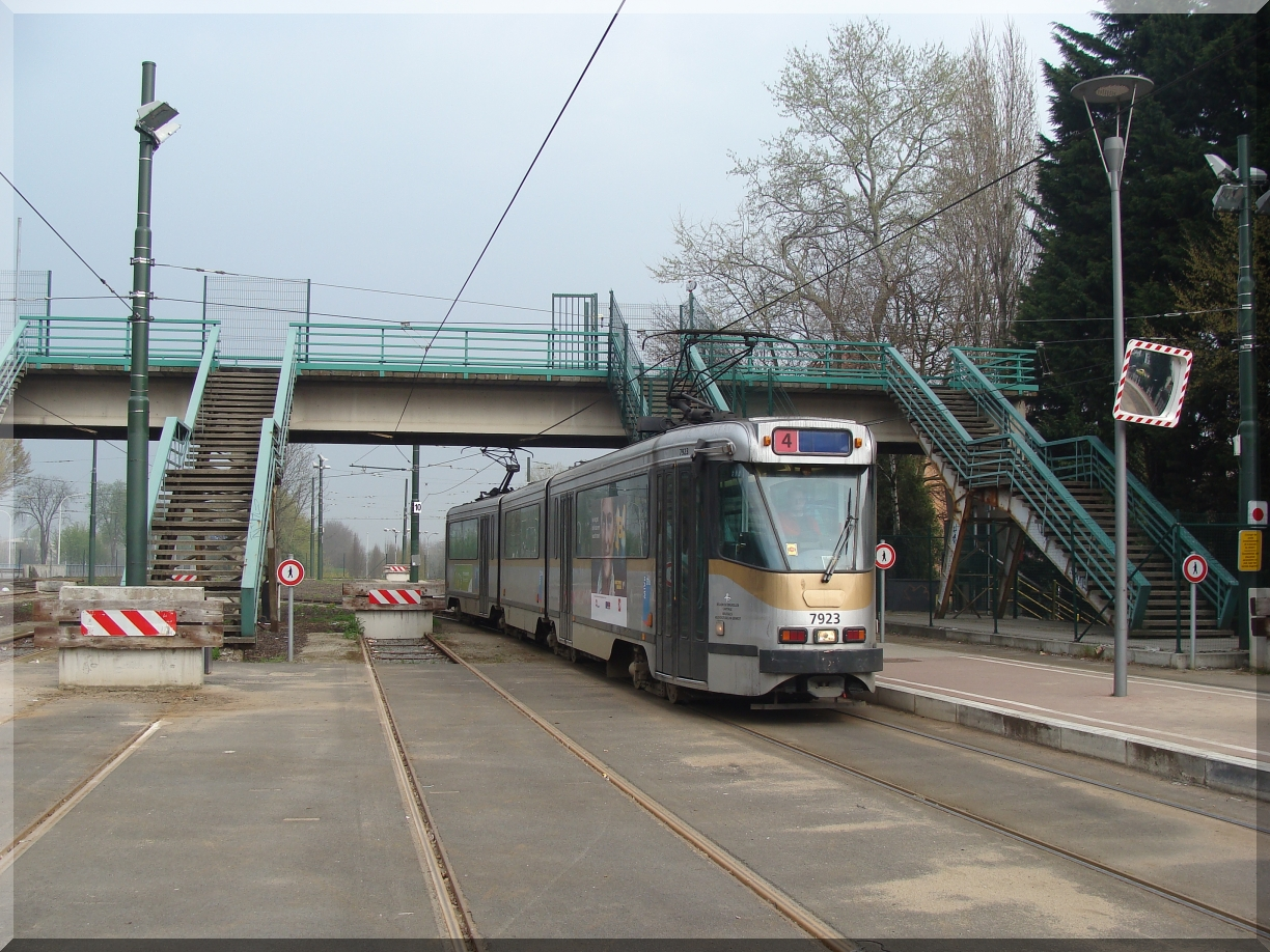 PCC 7900 At the terminus Esplanade.